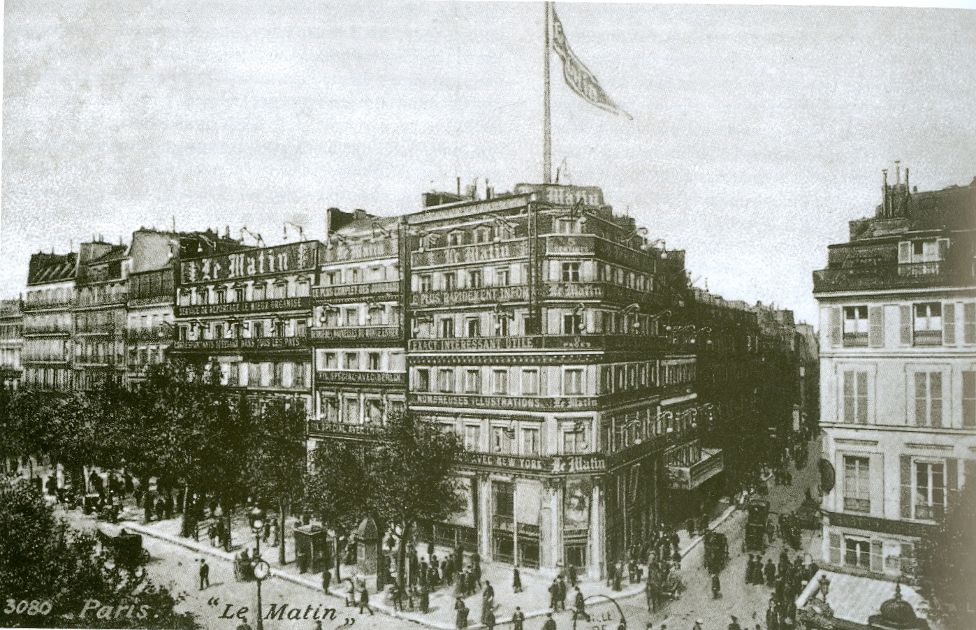 Journal le Matin, Paris